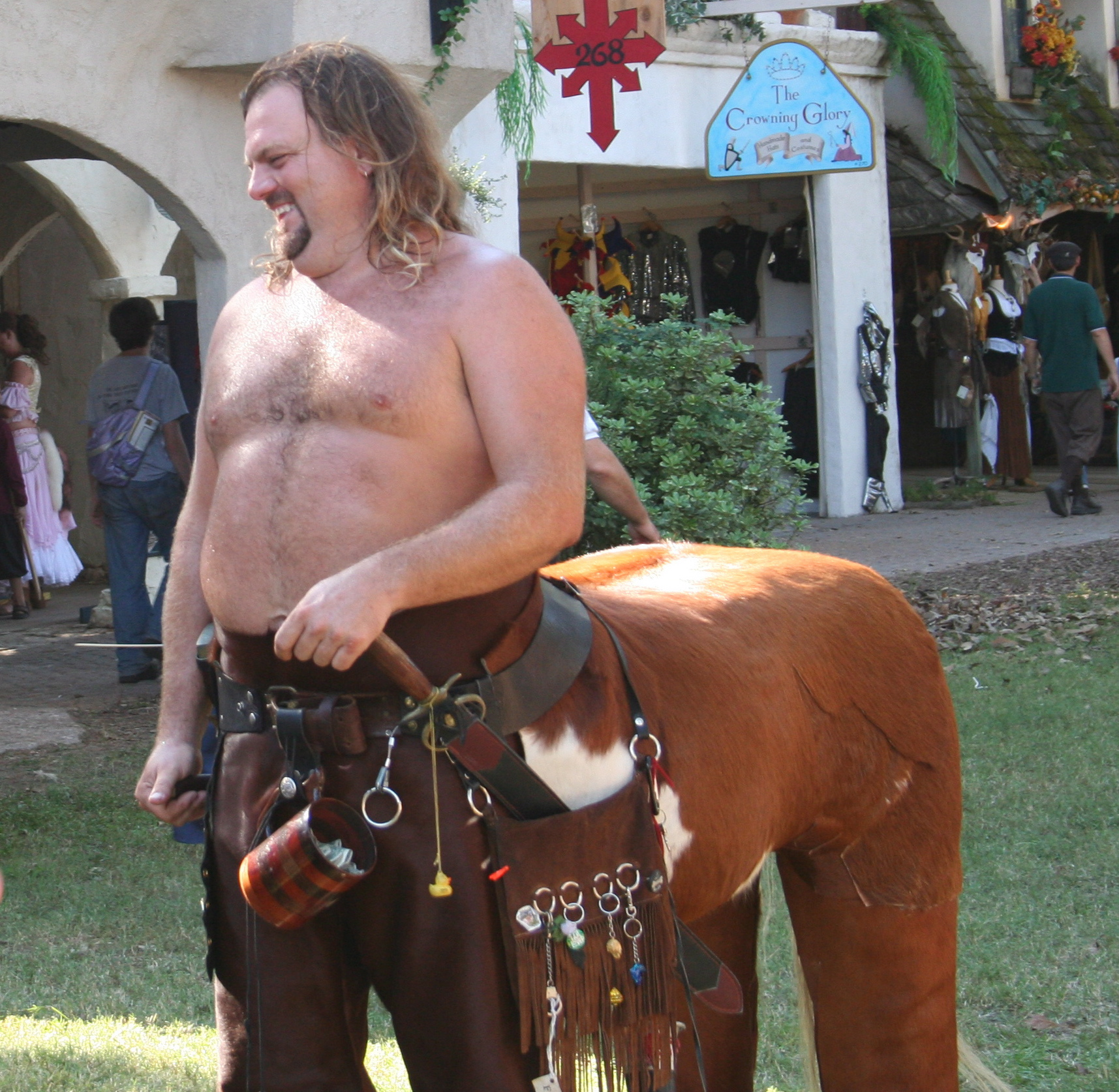 The Centaur at the Renfest in Texas. This is one gregarious centaur.